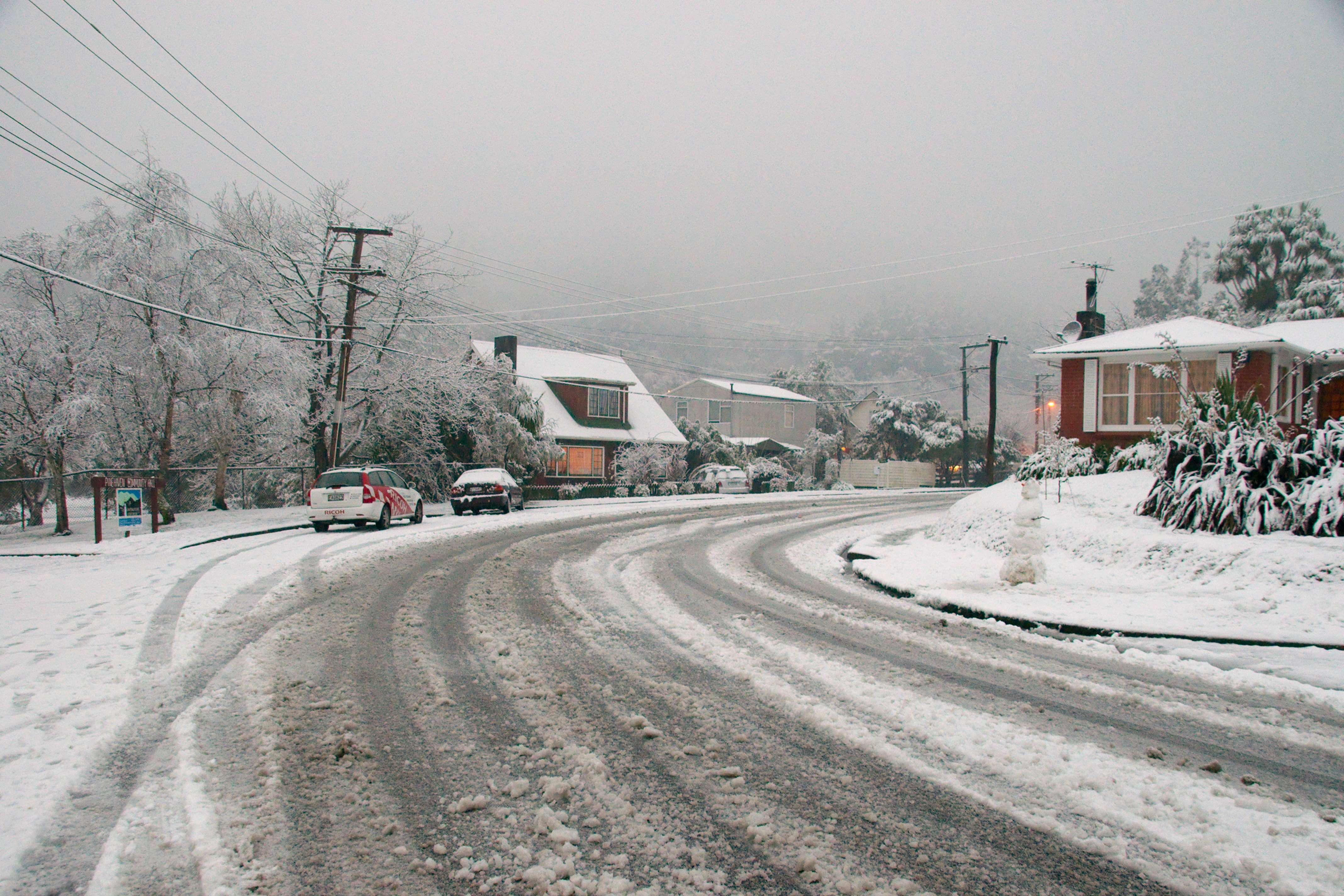 Forest Road during the 2011 New Zealand Snowstorms